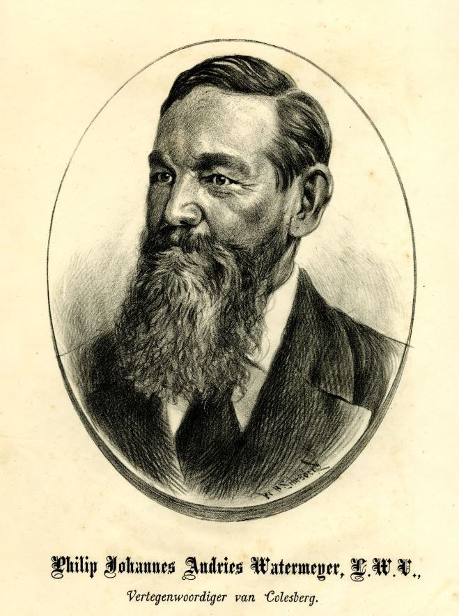 Philip Johannes Andries Watermeyer - Cape Colony MP for Colesberg. 1883.